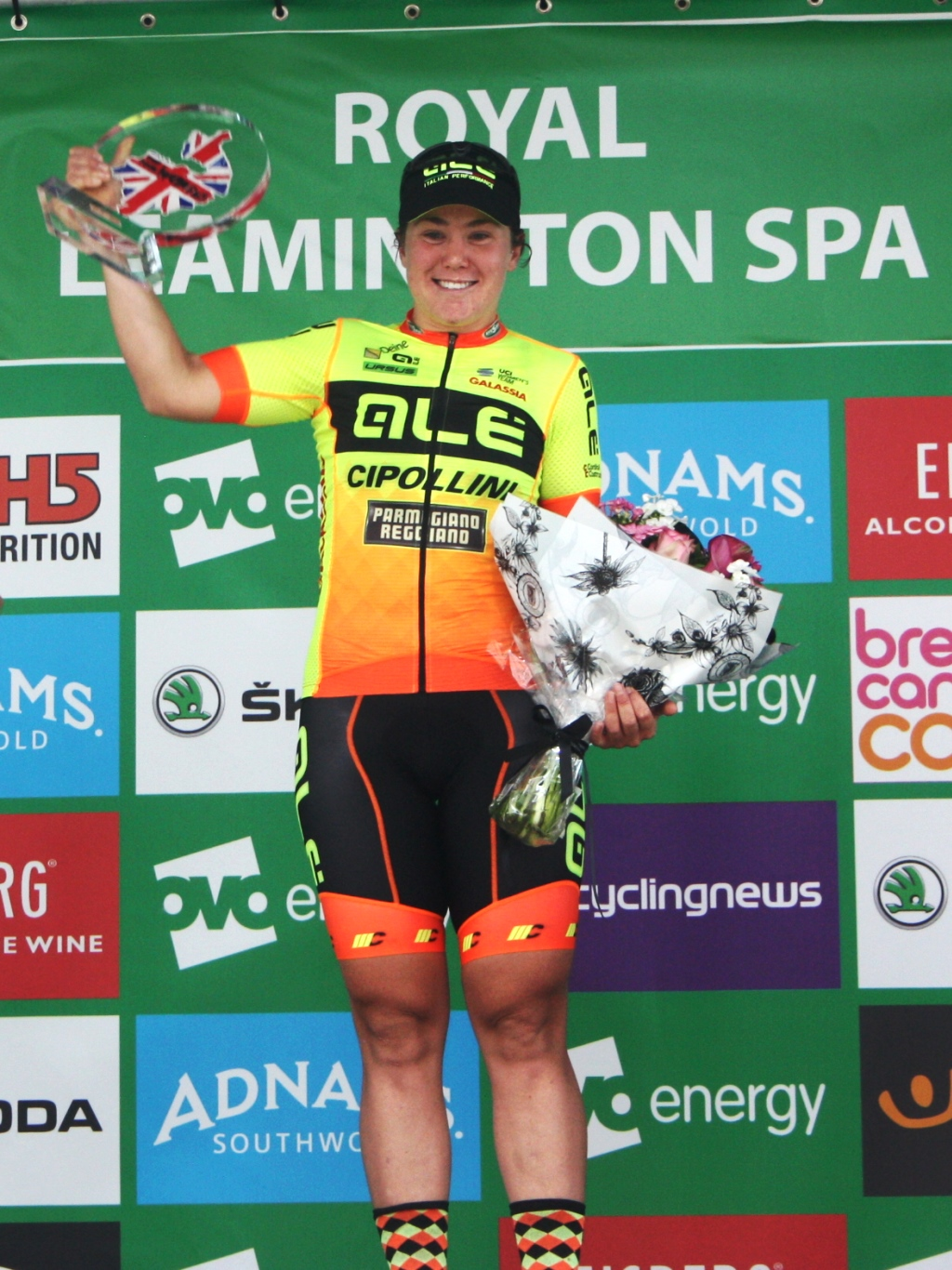 Chloe Hosking from the Alé Cipollini team receives her prize for winning stage 3 of the 2017 Women's Tour.